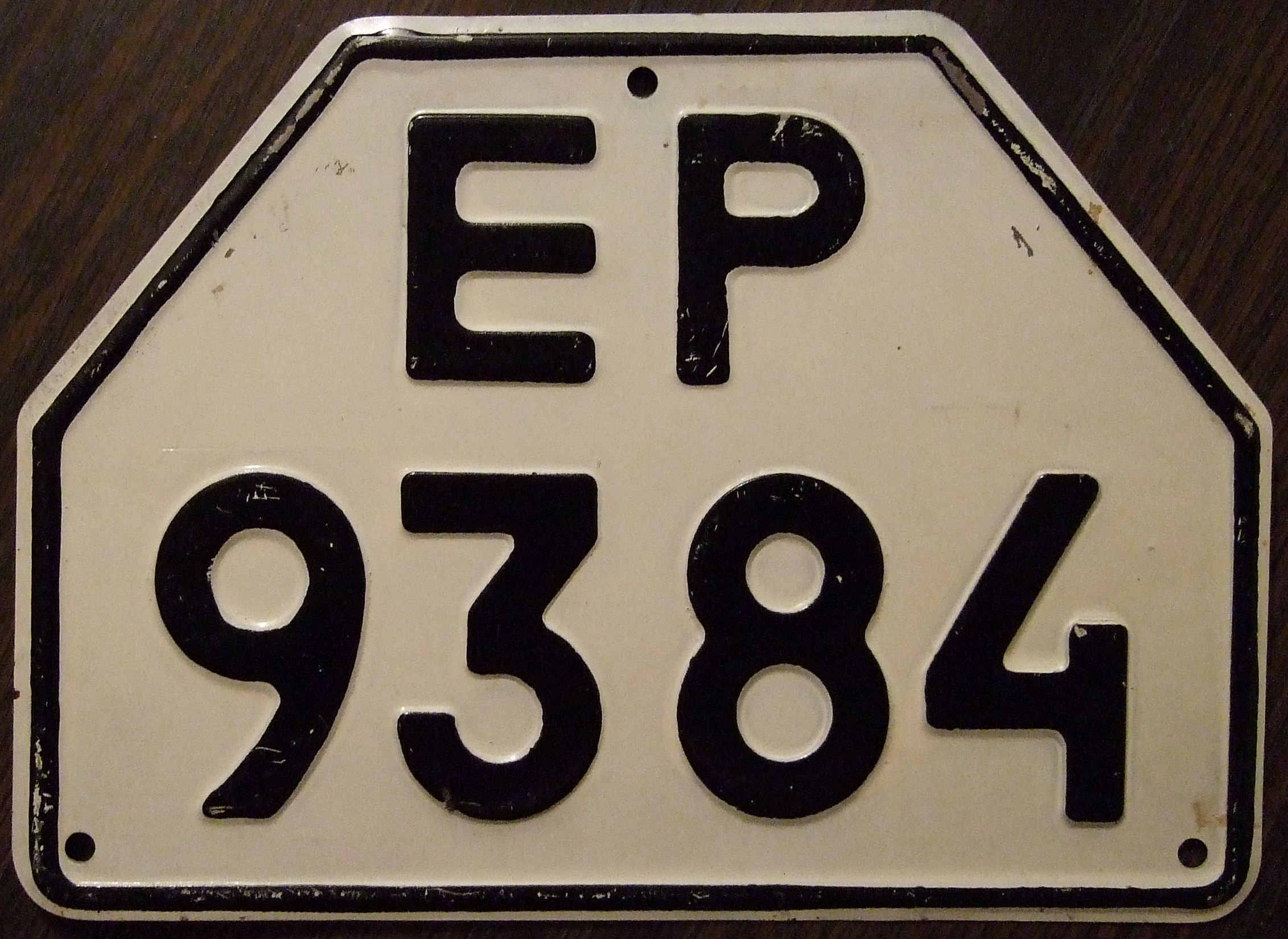 USSR AZERBAIJAN SSR tractor trailer plate